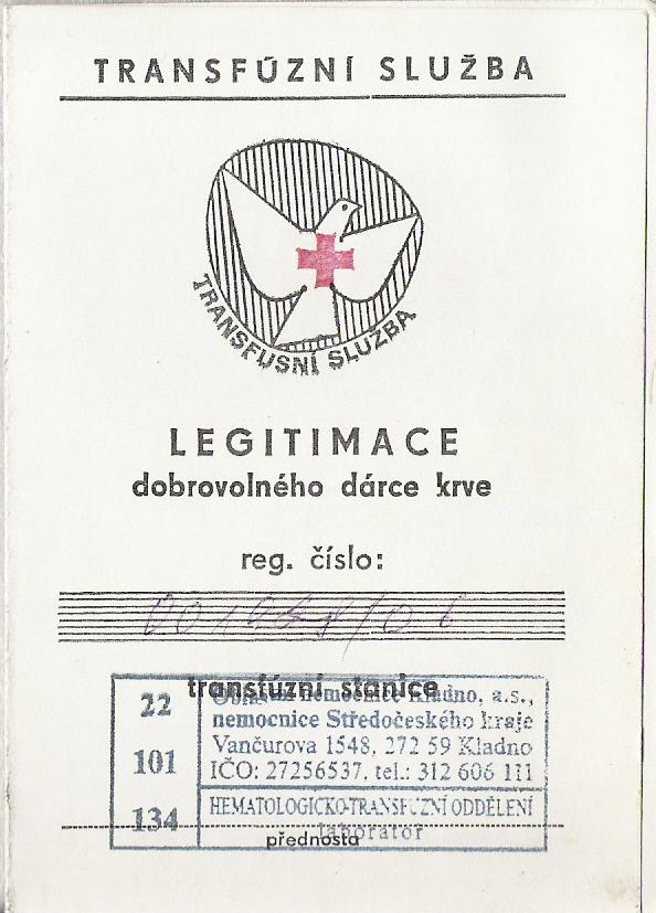 Czech legitimation of voluntary blood donor